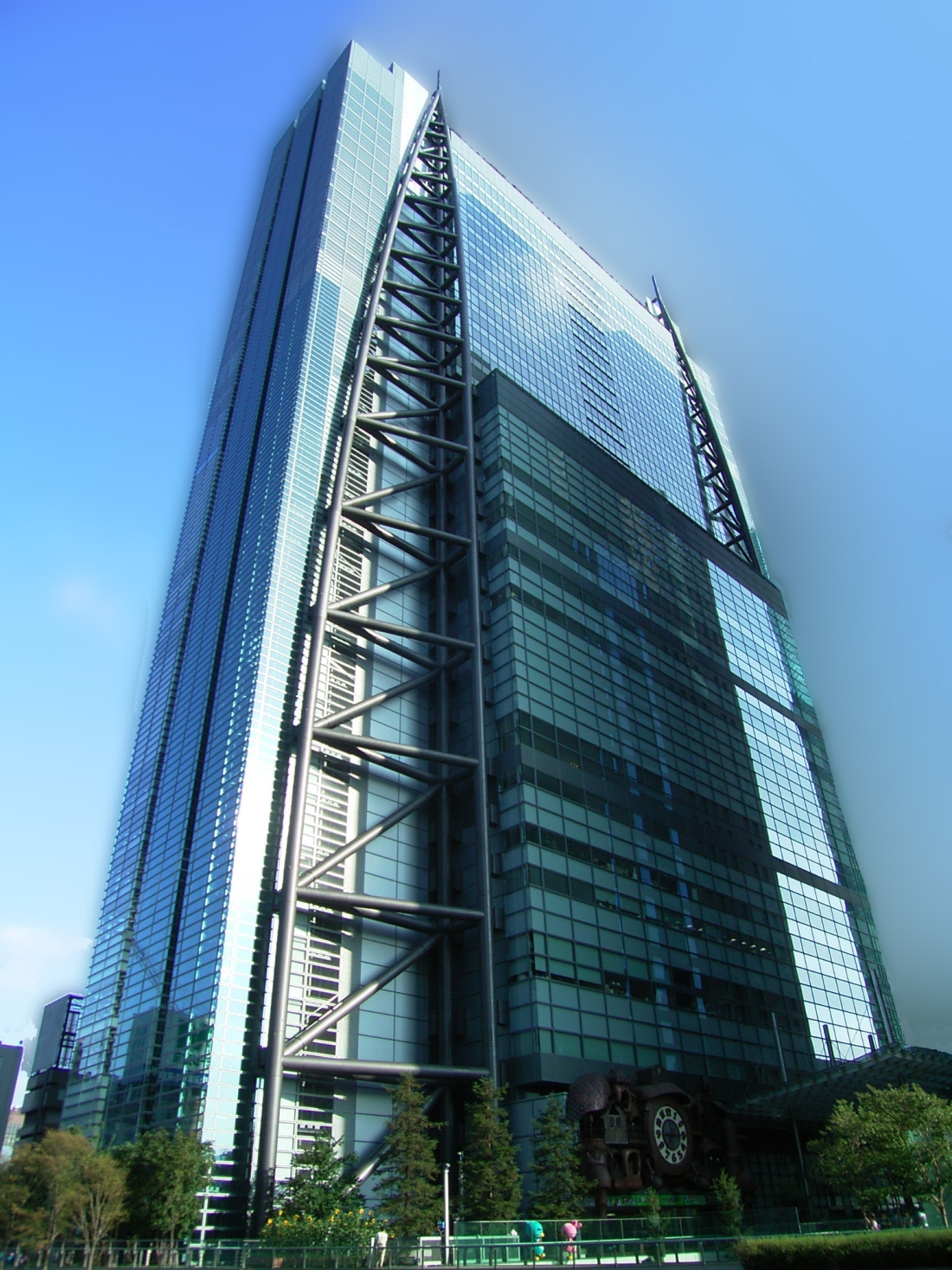 Nippon Television Network Corporation Head Office Building Nittele tower address = 1-6-1, Higashishinbashi, Minato-ku, Tokyo